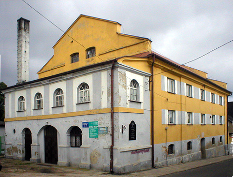 Synagogue in Sieradz